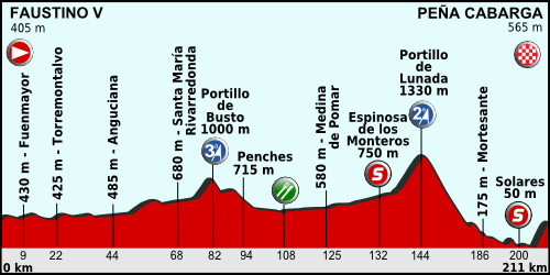 Profile of the 17th stage: Vuelta a España 2011